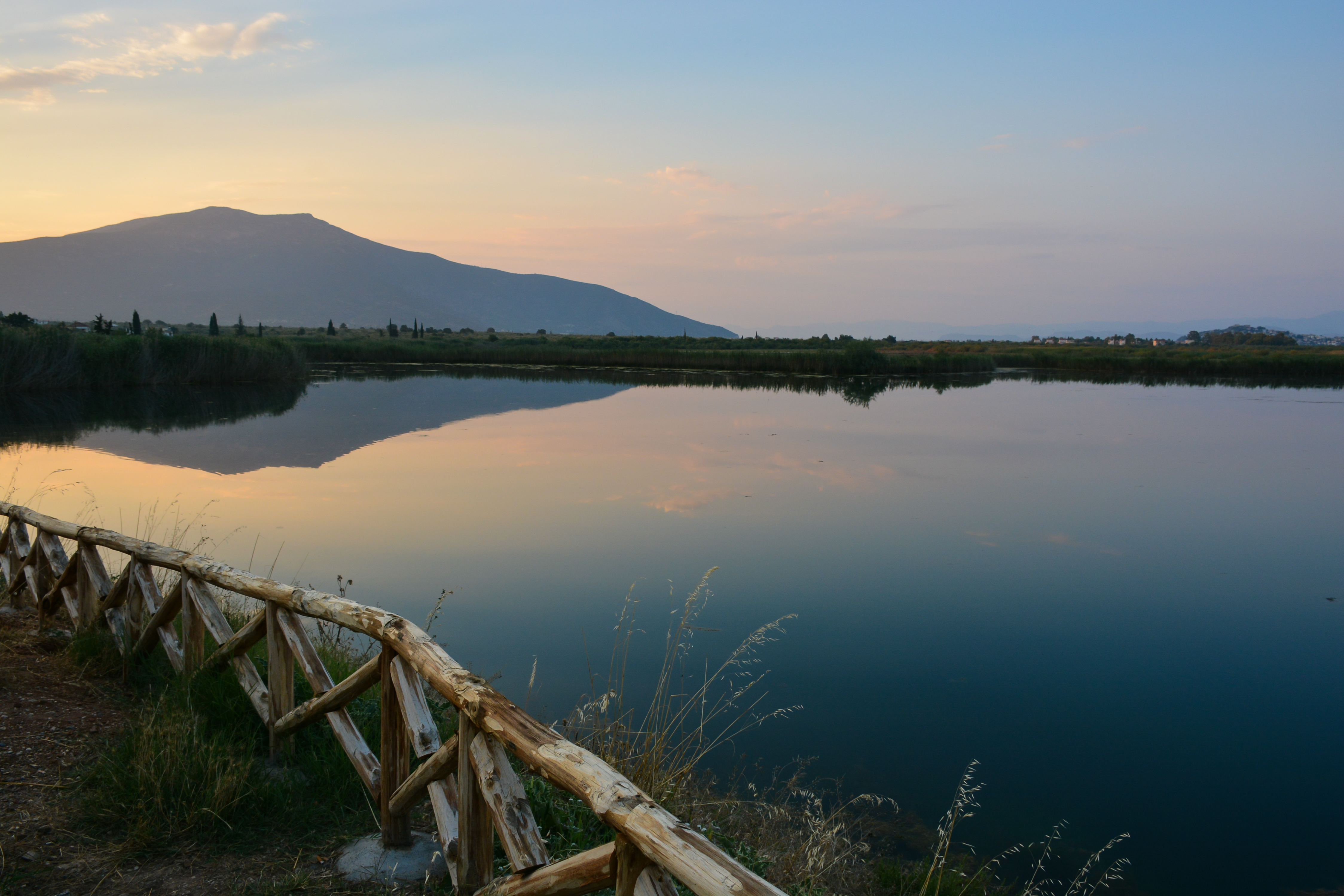 This is a photography of Natura 2000 protected area with ID GR2520003